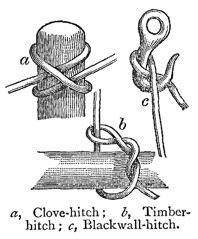 Illustration from 1908 Chambers's Twentieth Century Dictionary. Hitch, n. (naut.) a species of knot by which one rope is connected with another, or to some object—various knots are the Clove-hitch, Timber-hitch, Blackwall-hitch, &c.